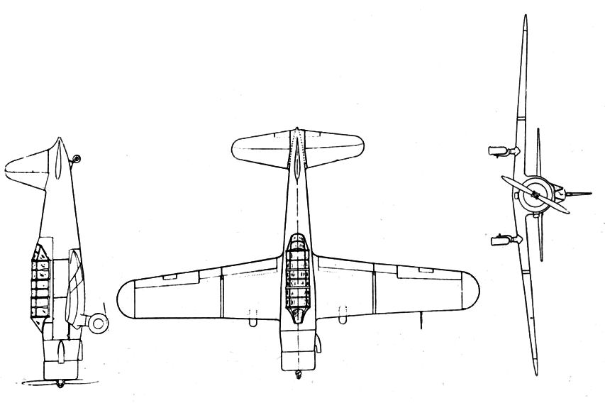 Vultee Valiant 3-view drawing from L'Aerophile May 1940